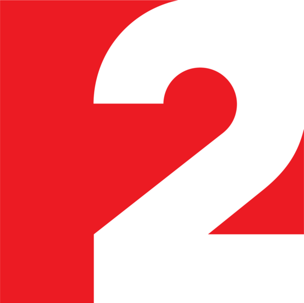 Logo of the Hungarian television channel TV2